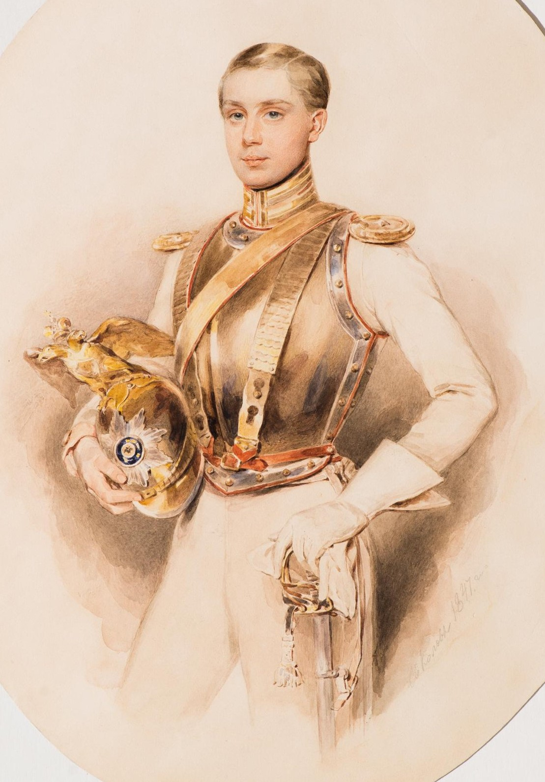 Chertkov, Grigory Ivanovich